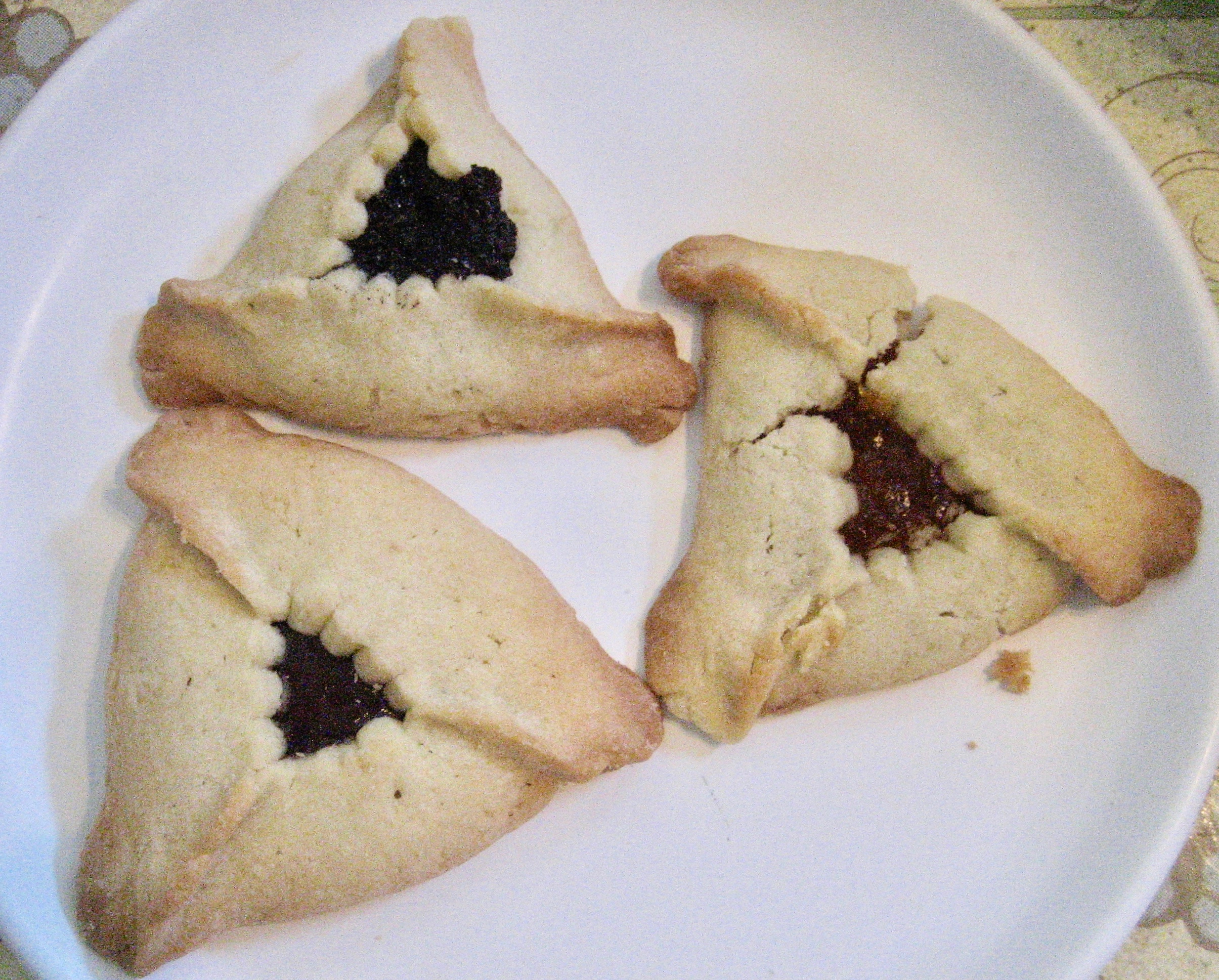 3 Hamantashen. At top: Poppy seed. Bottom left: Raspberry. Right: Apricot. Photographed in New Orleans, Purim.